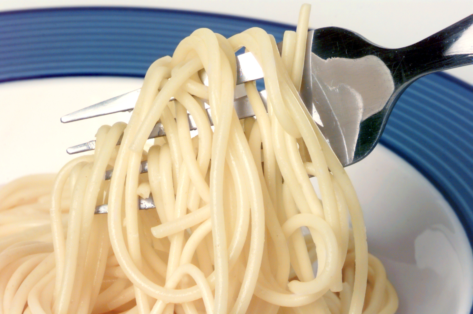 CSIRO researchers have developed a salt tolerant durum wheat that yields 25 per cent more grain than the parent variety in saline soils. The breakthrough will enable wheat farmers to achieve higher yields of durum wheat in saline soils. Although durum wheat is less salt tolerant than bread wheat it attracts a premium price because of its superior pasta making qualities. The CSIRO Plant Industry research team responsible for the breakthrough isolated two salt tolerance genes (Nax1 and Nax2) derived from the old wheat relative Triticum monococcum. Both genes work by excluding potentially toxic sodium from the leaves by limiting its passage from the roots to the shoots. Through traditional, non-GM breeding methods aided by molecular markers the team was able to introduce the salt exclusion genes into durum wheat lines.